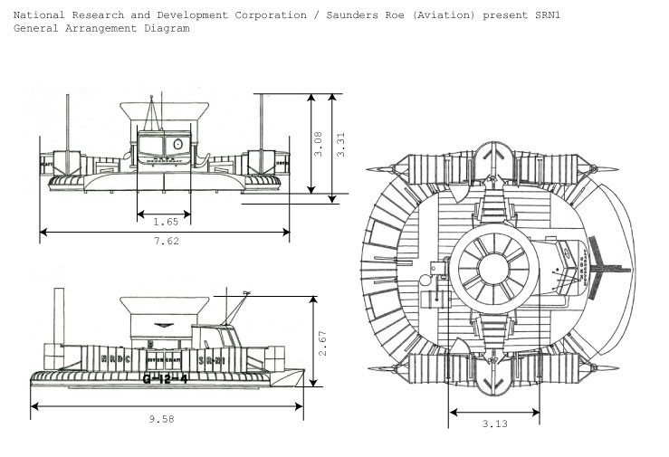 SRN1 Hovercraft General Arrangement Diagram